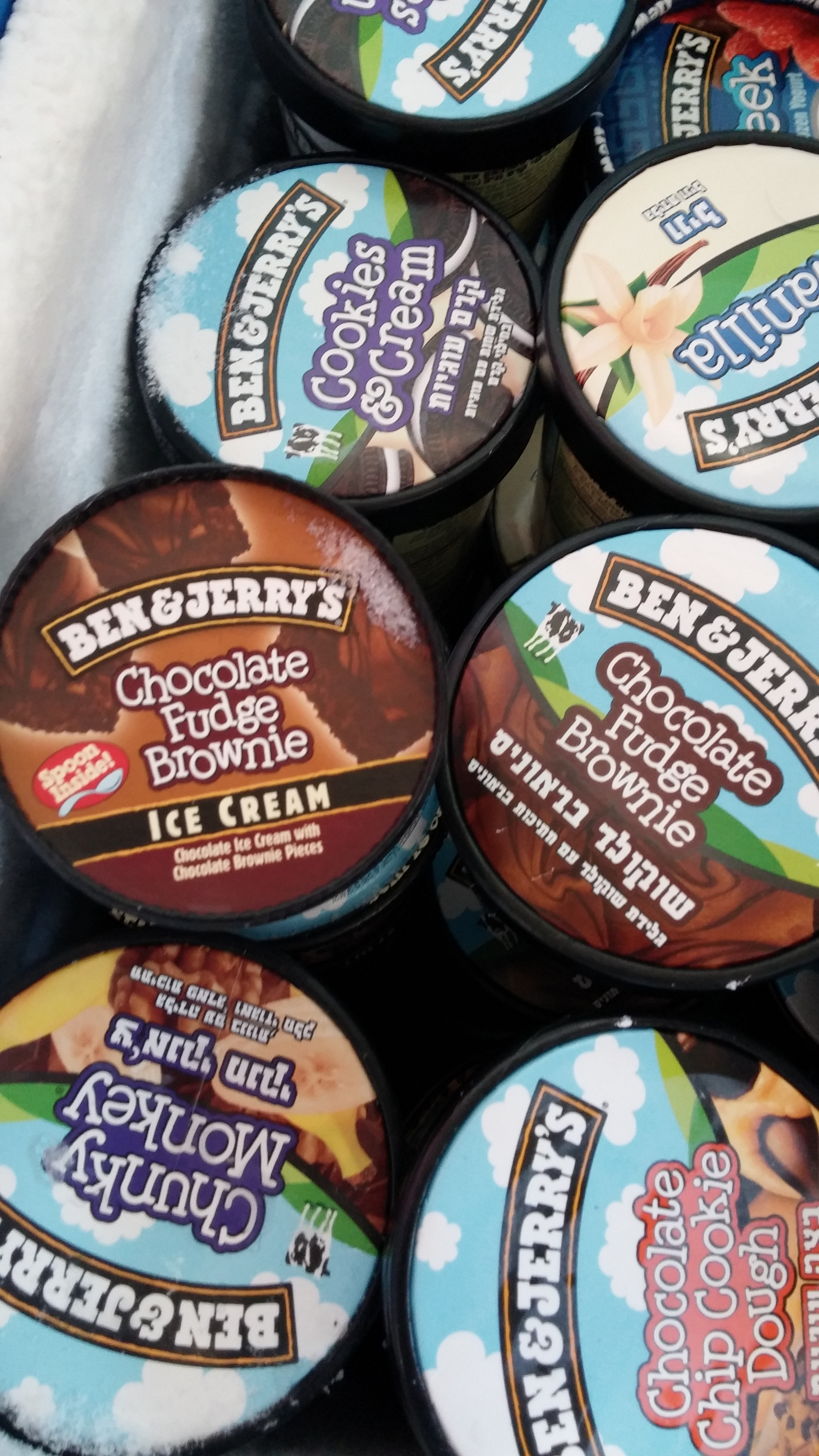 Ben & Jerry's in Israeli shop